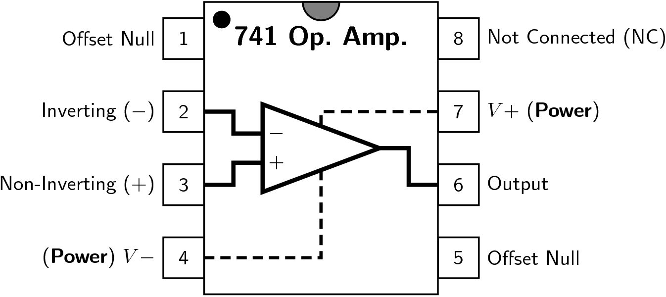 Pinout of a generic 741 operational amplifier when viewed from the top. Includes depiction of operational amplifier with its supply rails.